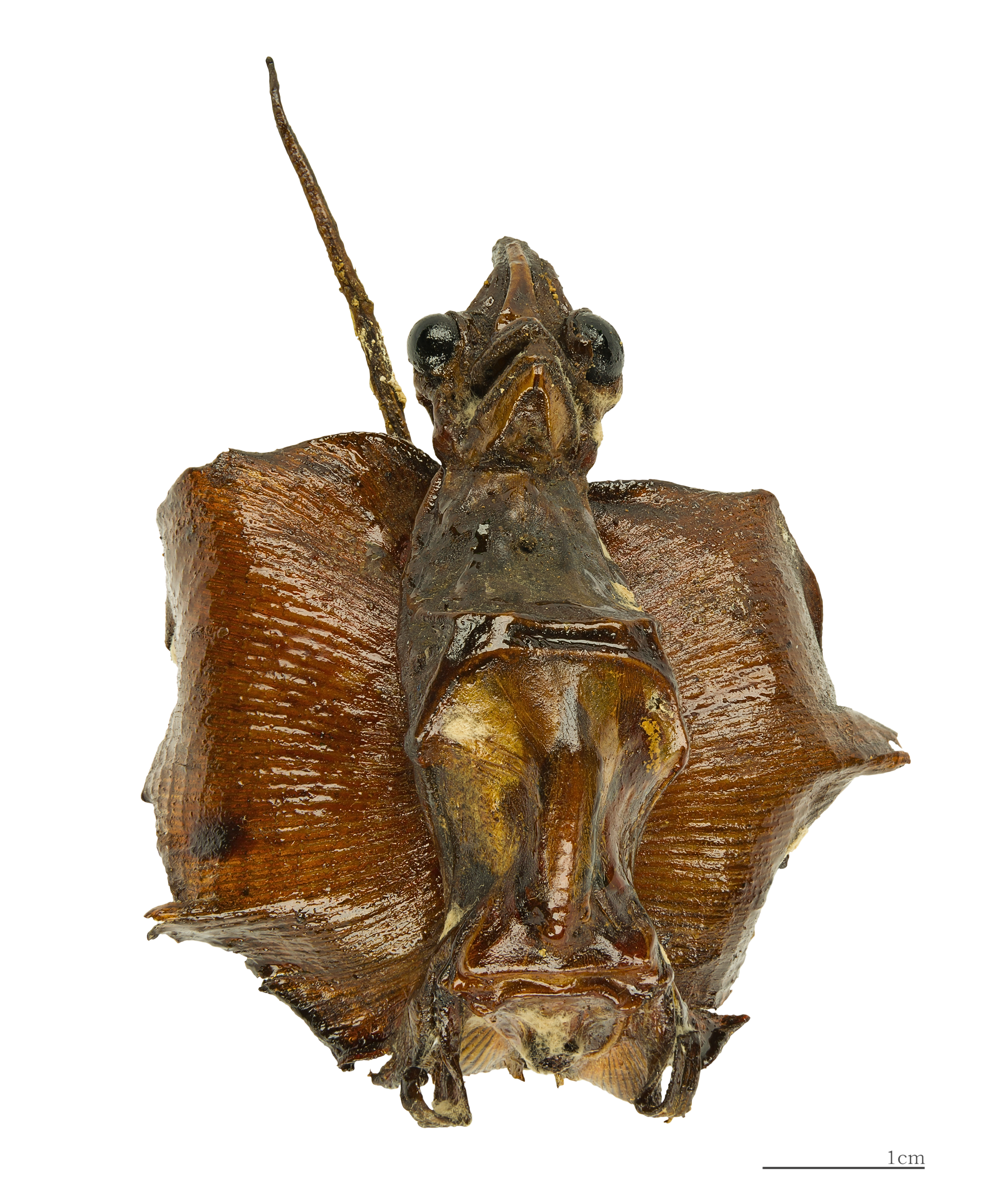 "Jenny Haniver " little dragon form. Former Jules Berdoulat collection. Obtained from one Guitarfish - Ventral face.